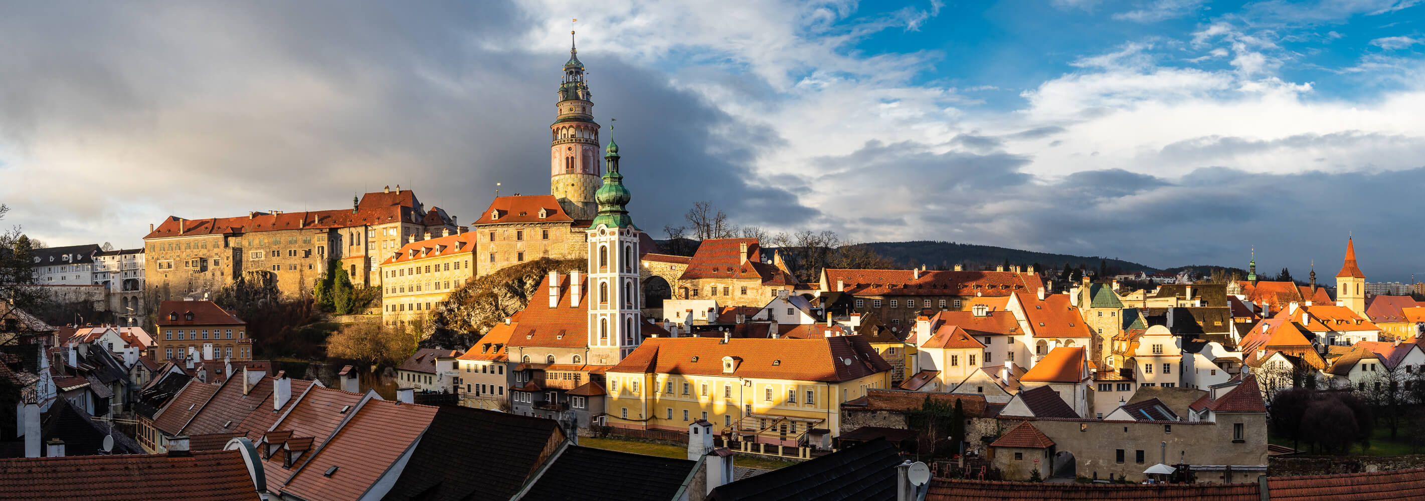 Český Krumlov at sunset. In the shadow of the Český Krumlov Castle and Tower, we can see the little red roofs of the Medieval Old Town and the Látran.